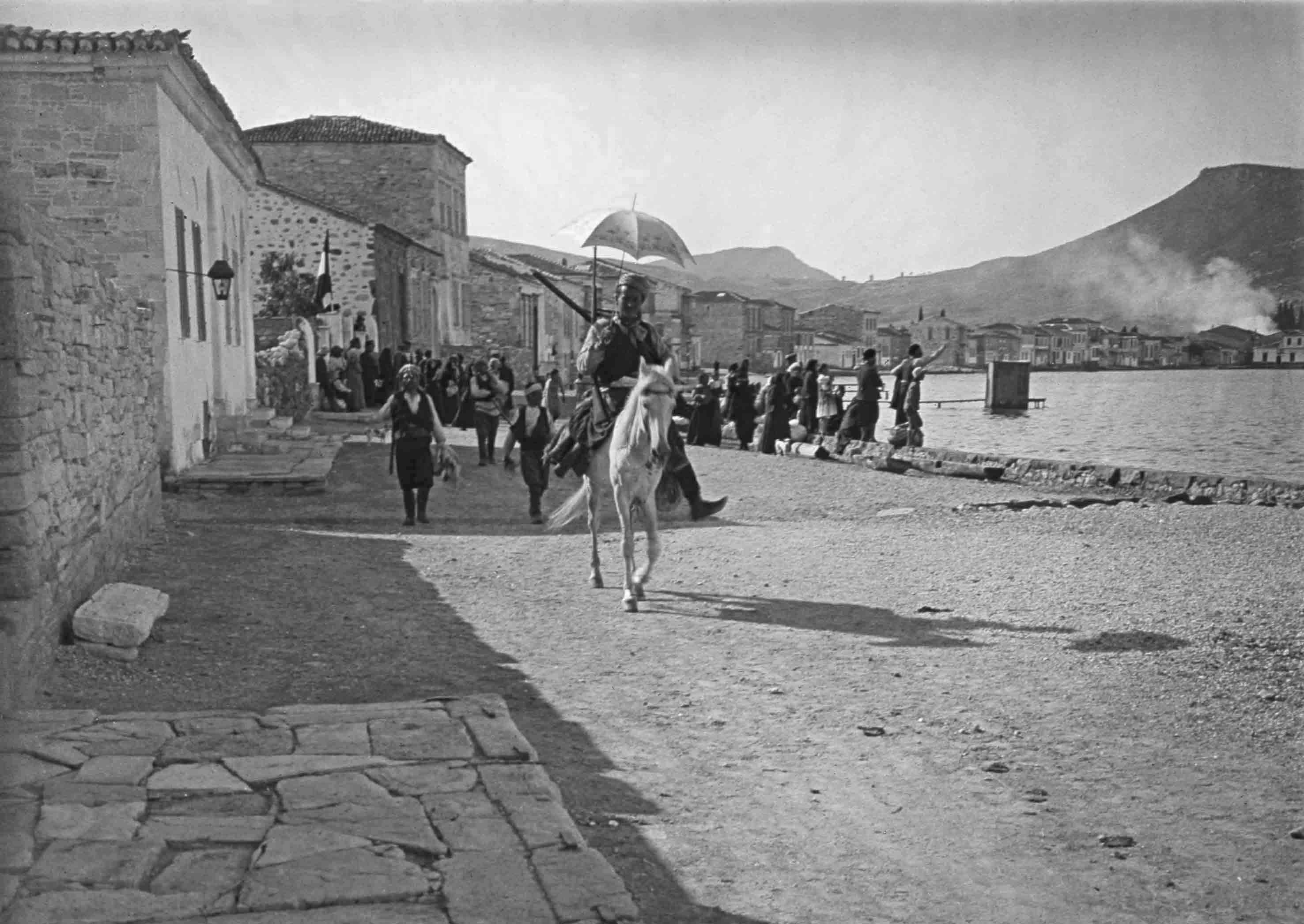 Turkish irregular bands showing their booty during the Phocaea (modern Foca) massacre (June 1914) photo taken by Félix Sartiaux (1876-1944)